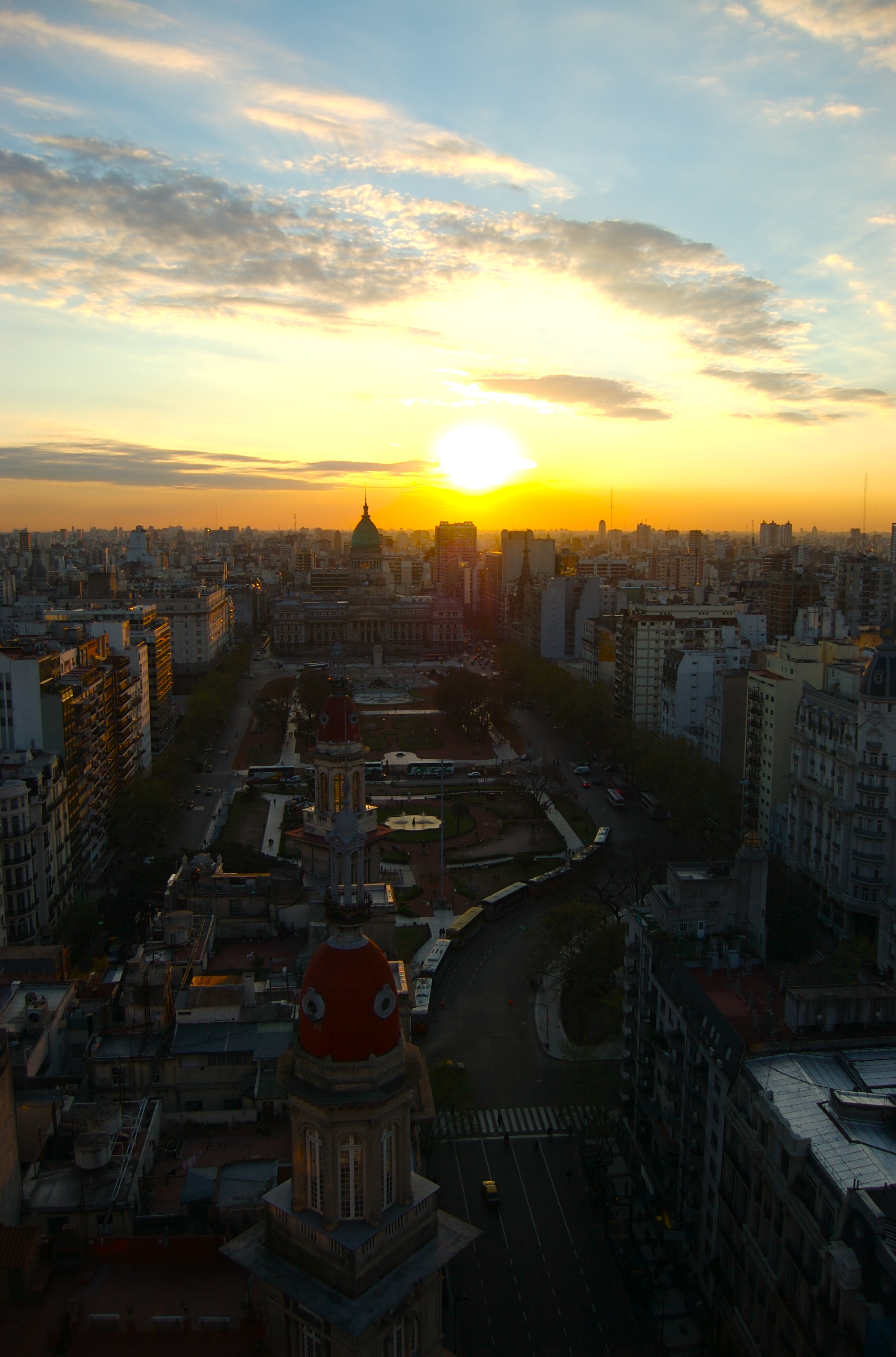 Sunset in Buenos Aires from the top of Palacio Barolo. It was also the first day of Spring 2007.